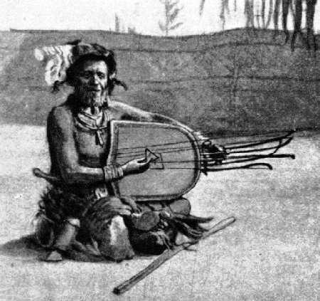 Pluriarc, composite chordophone musical instrument, Bakuba people